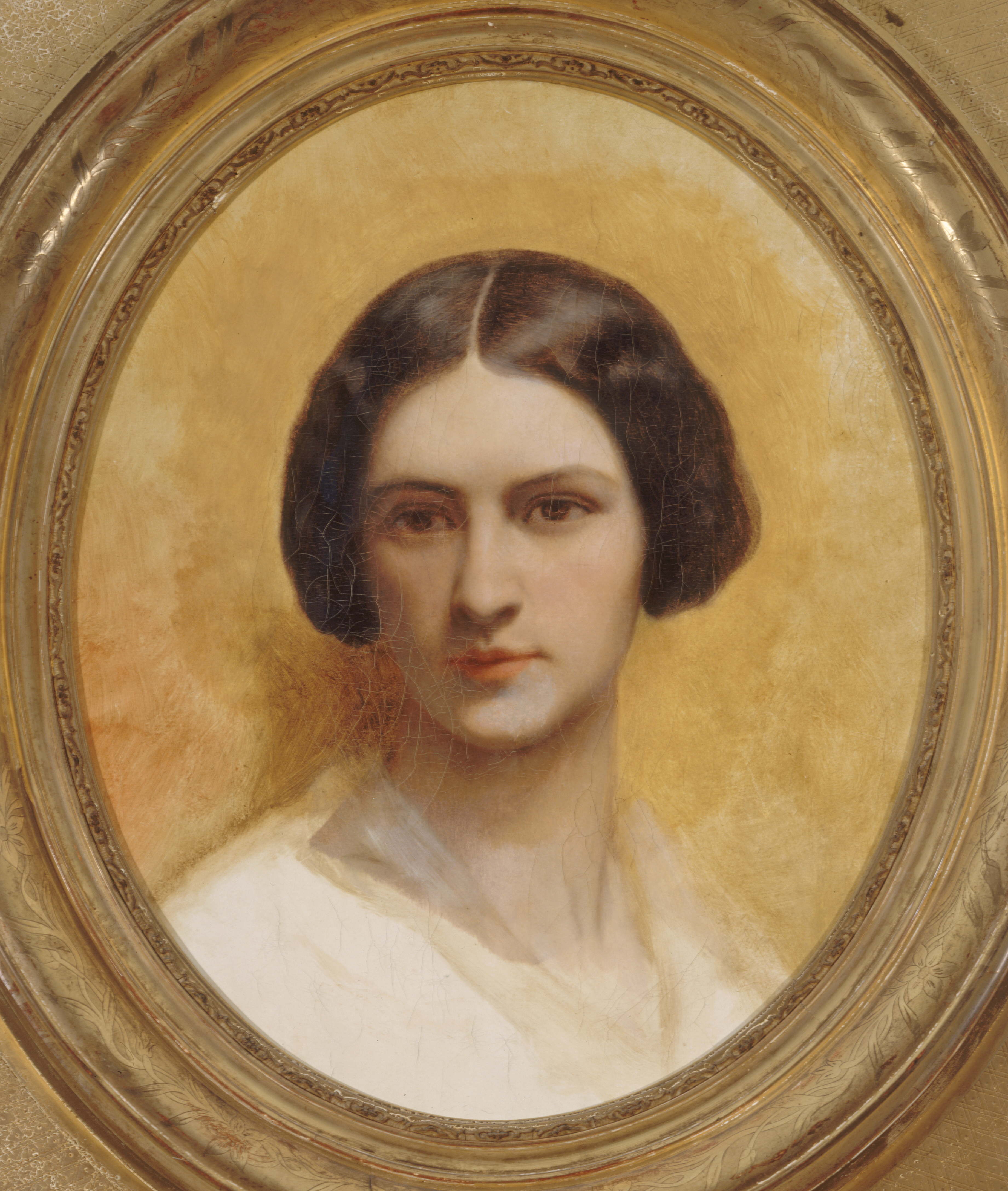 Ary Scheffer - Portrait of Cornelia Marjolin Scheffer